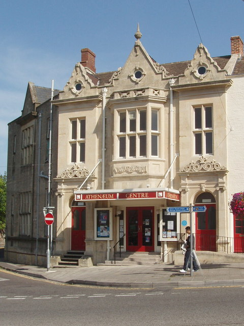 Athenaeum Centre, Warminster. Used for theatrical and other events. Built in 1858 by public subscription, "The Athenaeum flourished with a successful period of scientific and technical lectures plus some opera and piano recitals." for history.